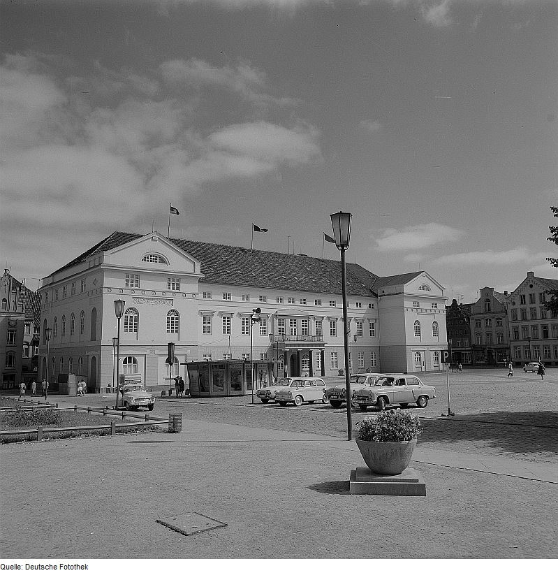 Original image description from the Deutsche FotothekWismar. Rathaus